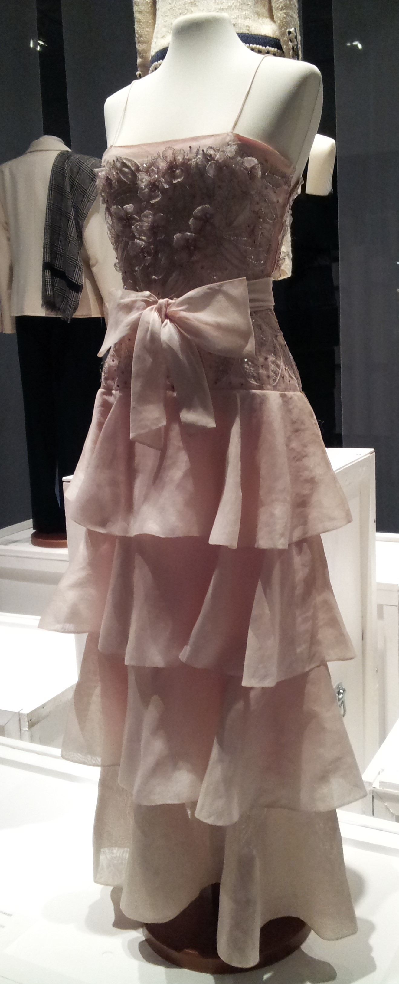 1970s evening dress by Nina Ricci. Pale pink silk organza with beaded embroidery.